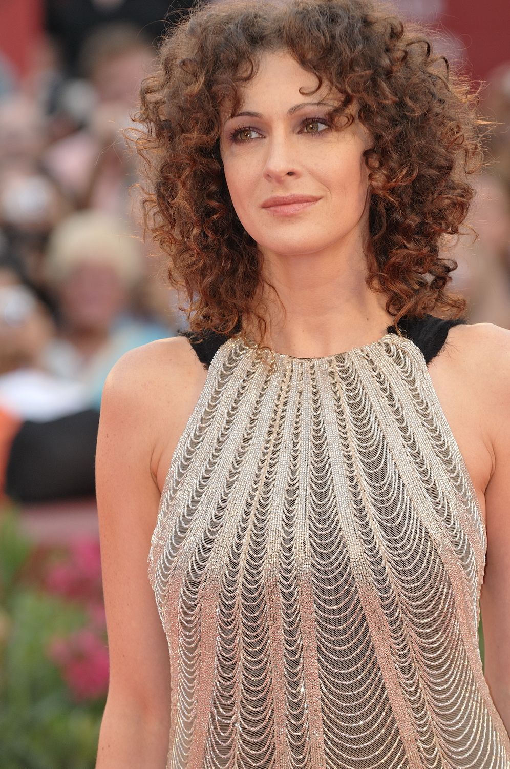 Actress Kseniya Rappoport attends the Closing Ceremony at the Sala Grande during the 66th Venice Film Festival on September 12, 2009 in Venice, Italy.